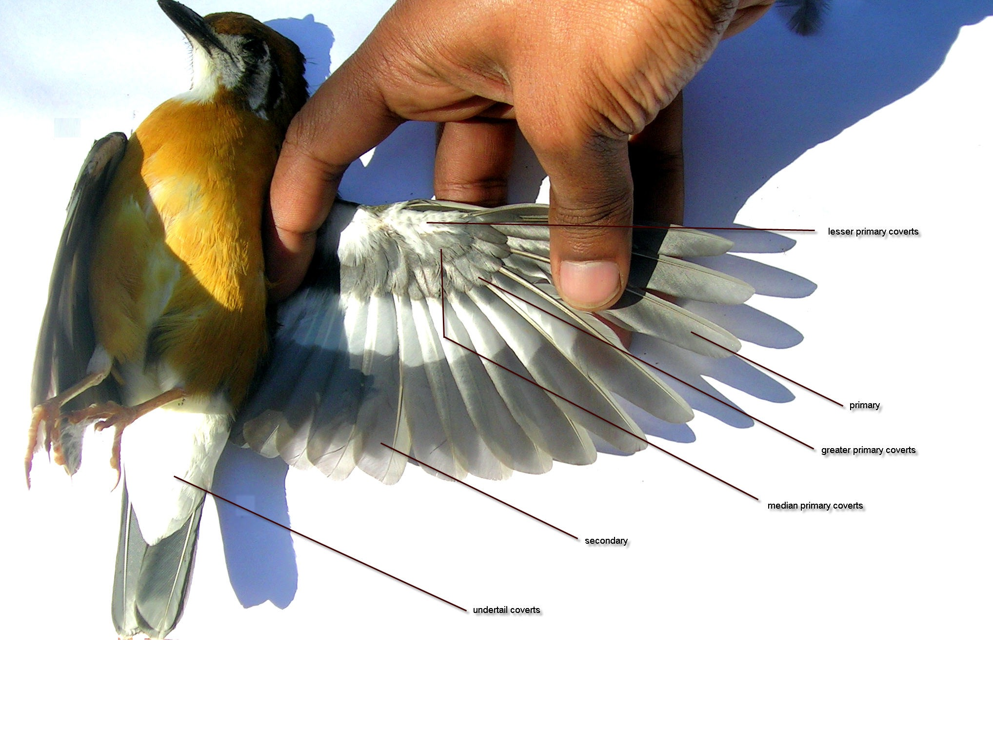 Wing of Zoothera citrina cyanotus showing coverts - source image is here File:Zoothera_citrina_cyanotus_under_wing.jpg